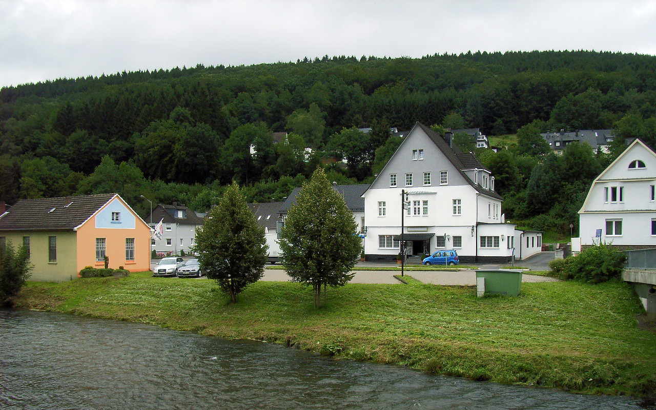 view of Brunohl, district of Gummersbach, North Rhine-Westphalia, Germany